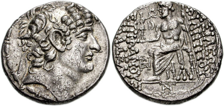 coin of Philip I from Cilicia